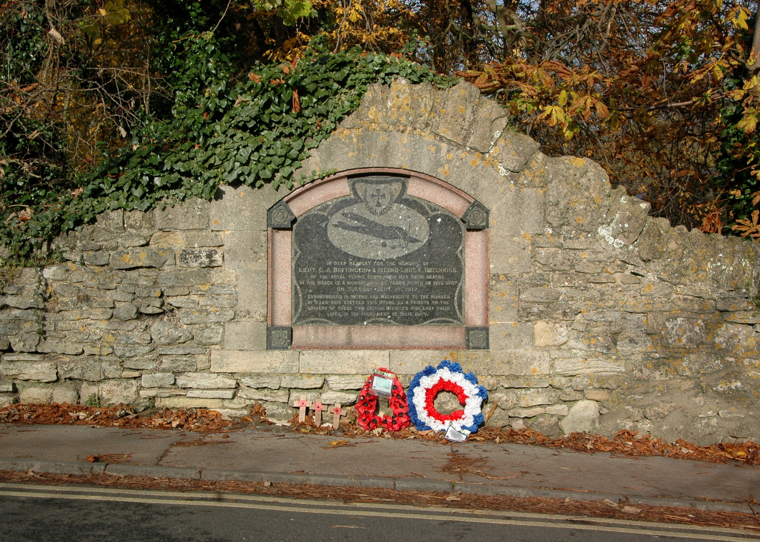 Monument to RFA lieutenants Bettington and Hotchkiss on the "Toll Bridge", Godstow Road, Wolvercote, Oxfordshire